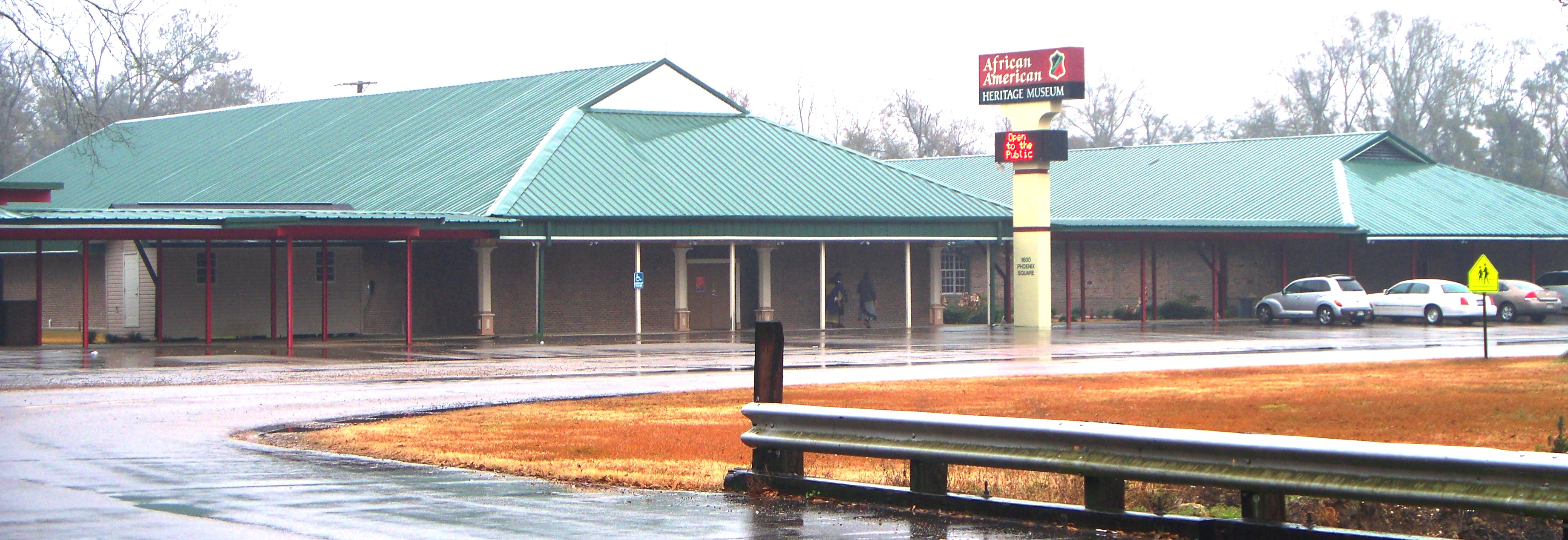 Tangipahoa African-American Heritage Museum on Phoenix Square in Hammond, Louisiana, viewed from the footbridge over a tributary of the Ponchatoula Creek